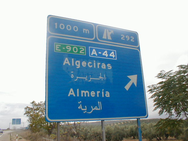 Street sign in Spain with the arabic name of Algesiras